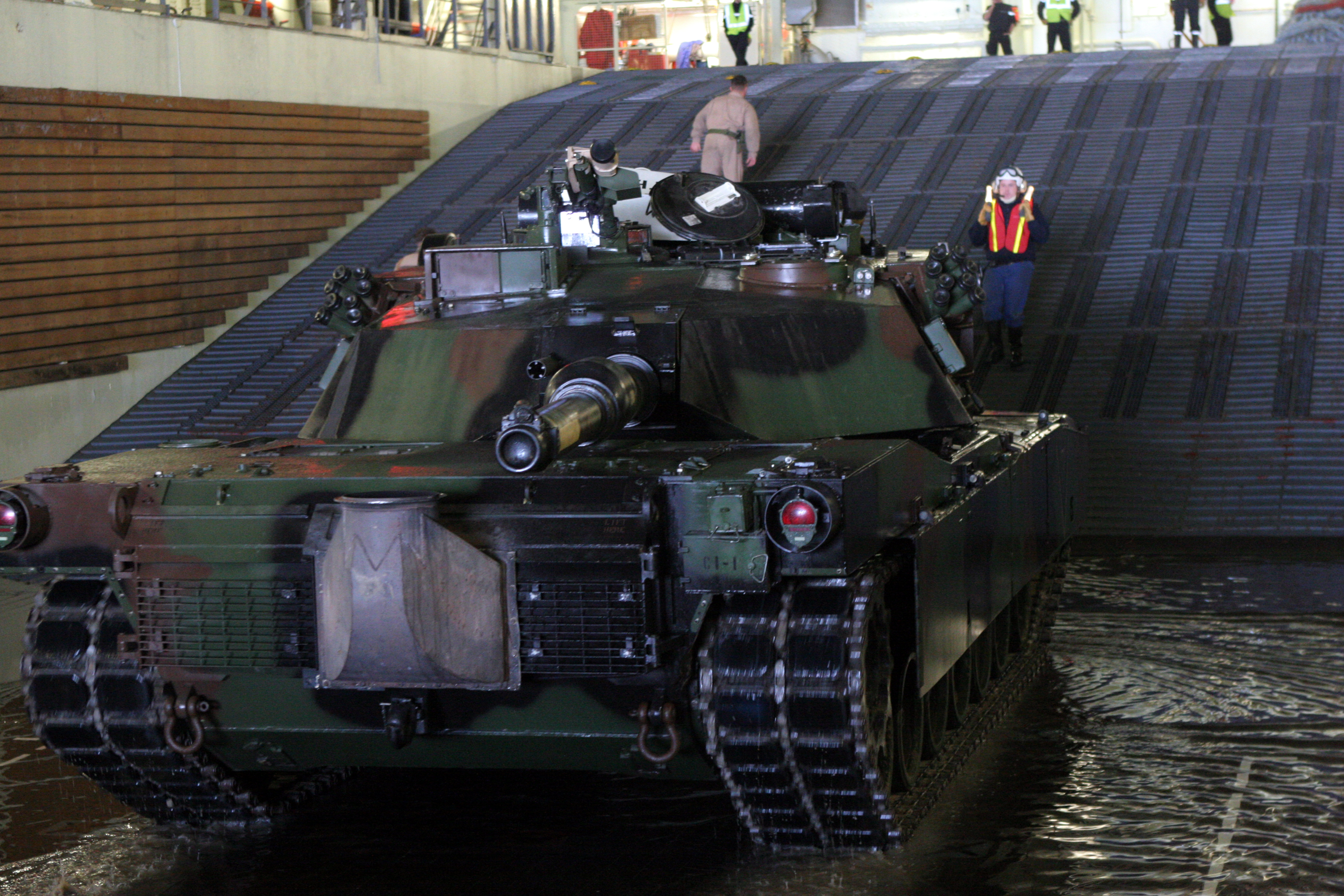 An M1A1 Abrams tank with Tank Platoon, Battalion Landing Team, 3rd Battalion, 2nd Marine Regiment, 22nd Marine Expeditionary Unit, embarks aboard the French Command and Projection ship FS Tonnerre, Feb. 7, 2009, off the coast of North Carolina for Composite Training Unit Exercise.